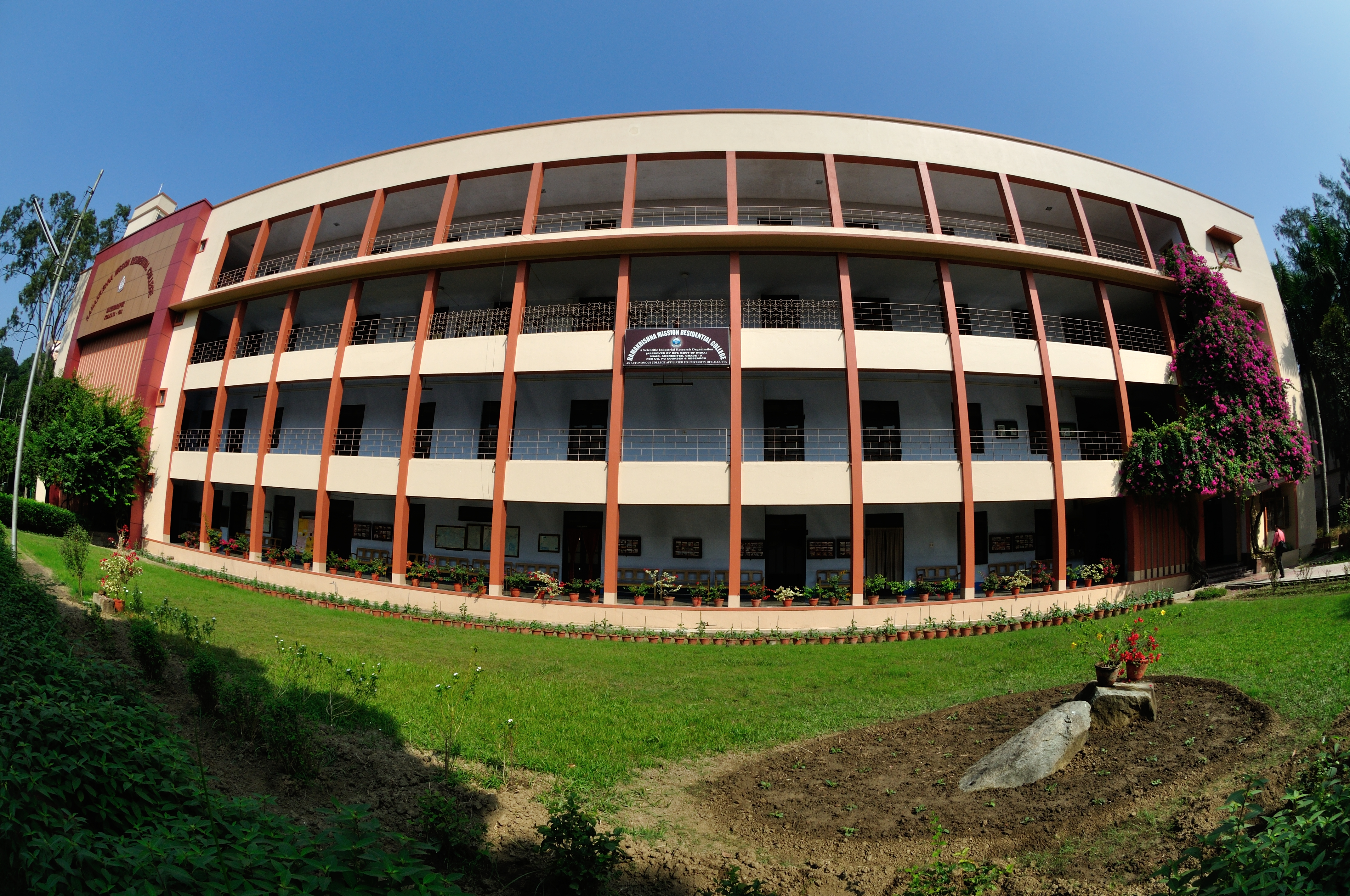 Photographed in Narendrapur, greter Kolkata.